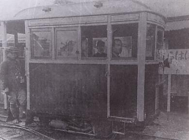 Gasoline railcar used in Isumi Kido.